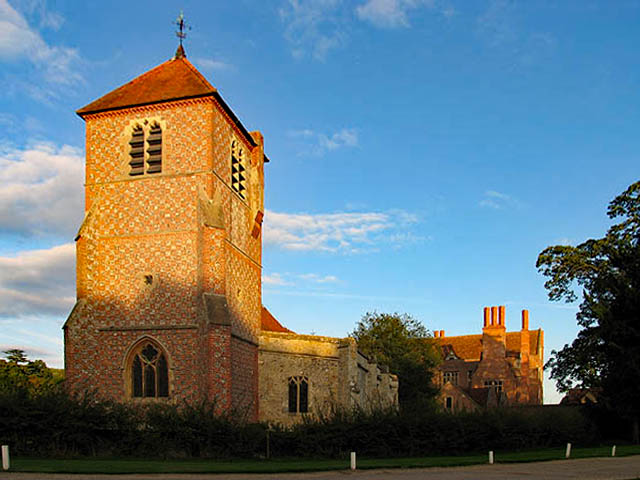 The Church at Mapledurham House. This picturesque church is on the western edge of the square and east of the mill.